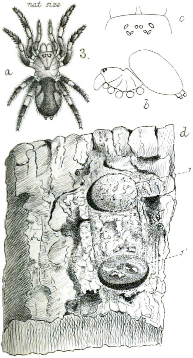 3 Moggridgea abrahami O.P.-Cambridge = Poecilomigas abrahami (O. P.-Cambridge, 1889), ♀ (a = adult from above, b = body of adult from left lateral, c = eye pattern from dorsal, d = Erythrina lysistemon branch with nest, upper (1) and lower (1') hinged lid slightly open)